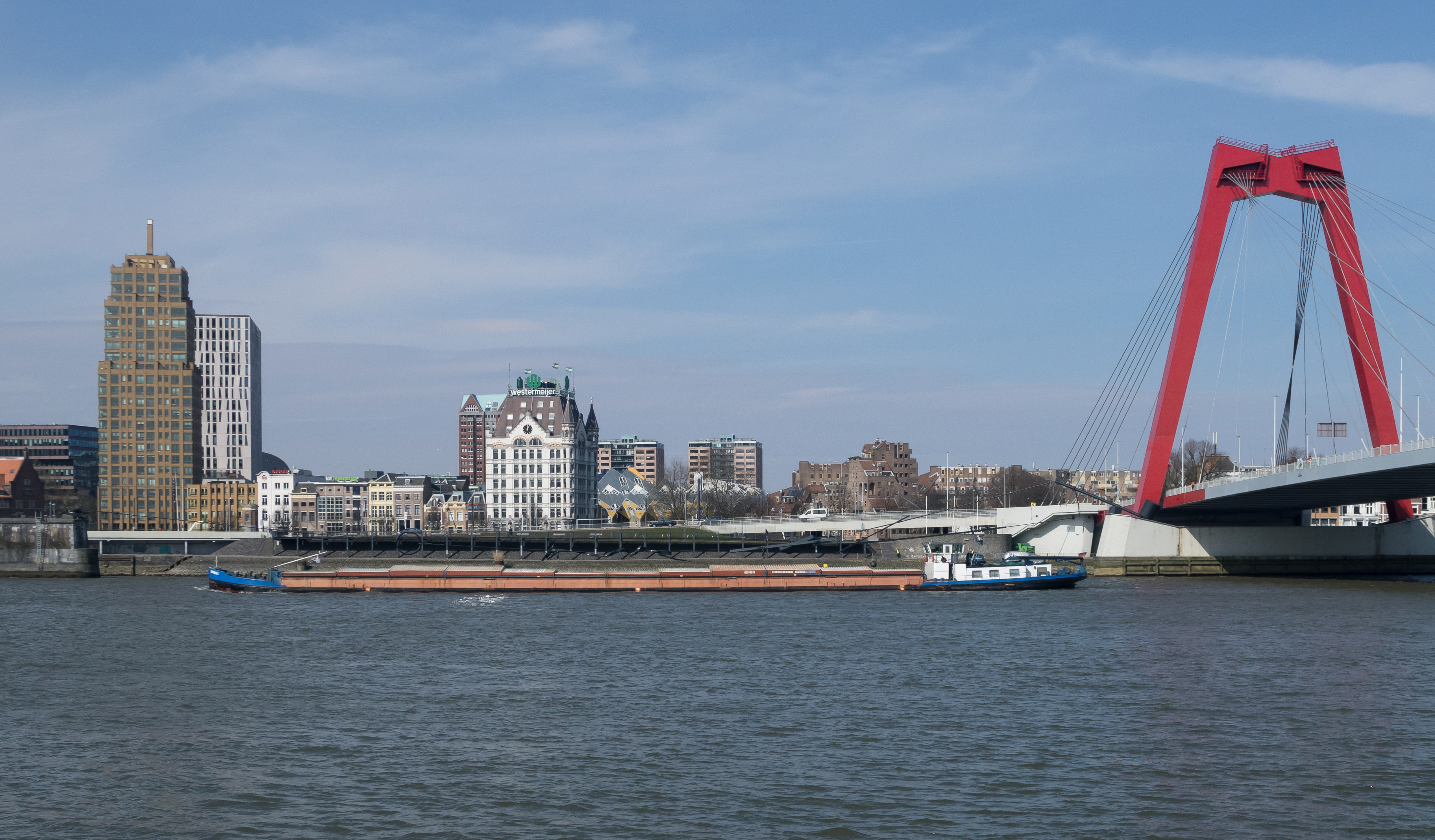 Rotterdam, view to the Wijnhaven and the bridge (the Willemsbrug) from Noordereiland